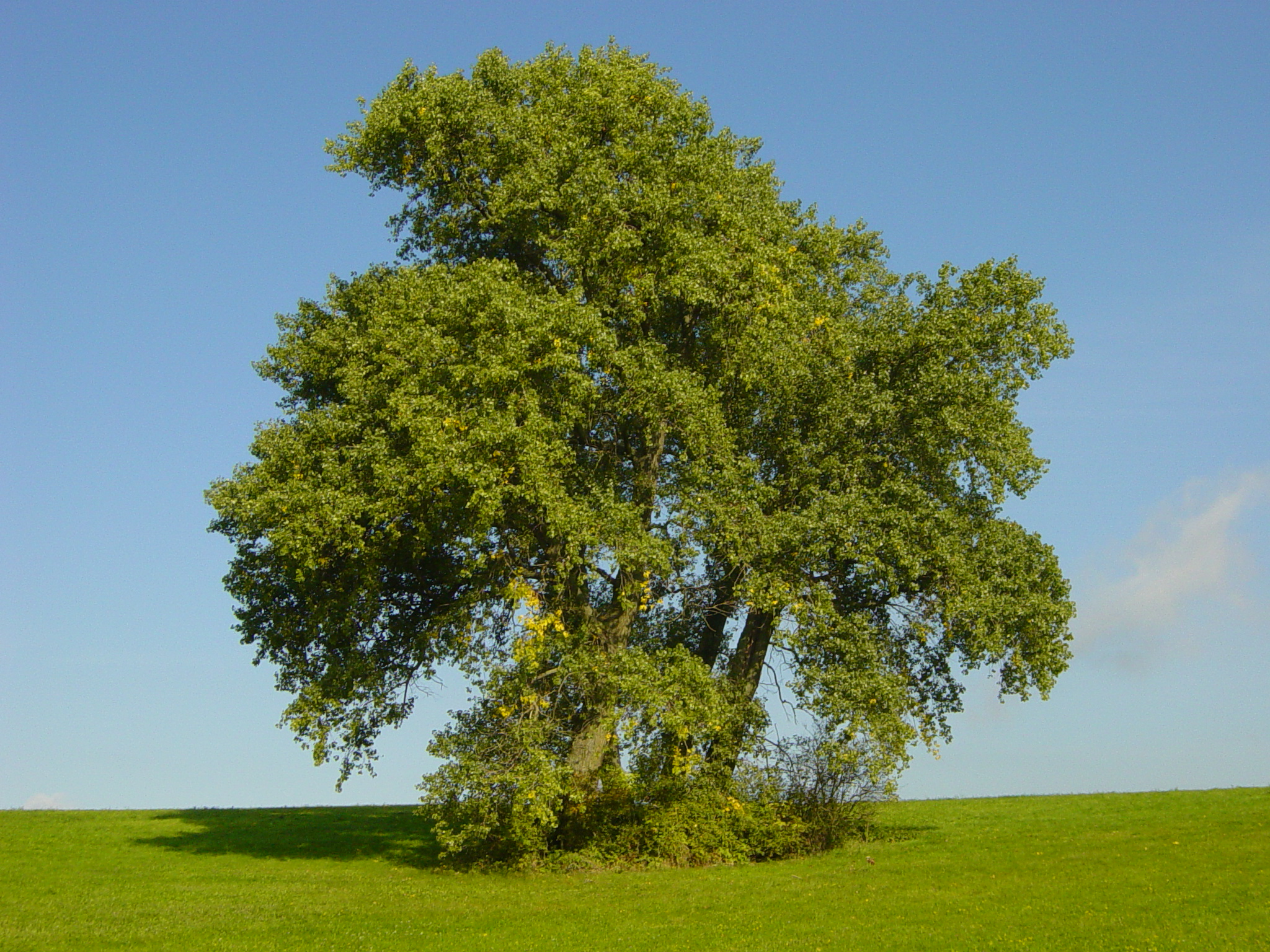 four poplars